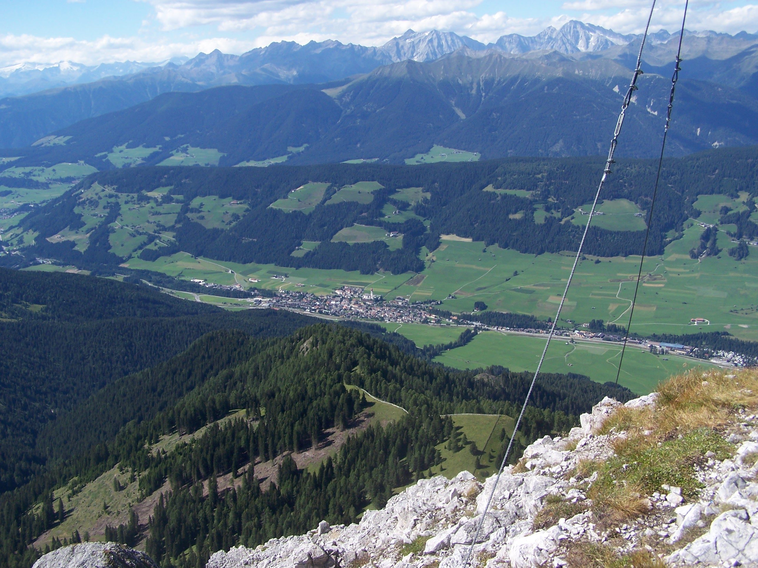 view of Niederdorf (Dolomites) as seen from Sarlkofel mountain